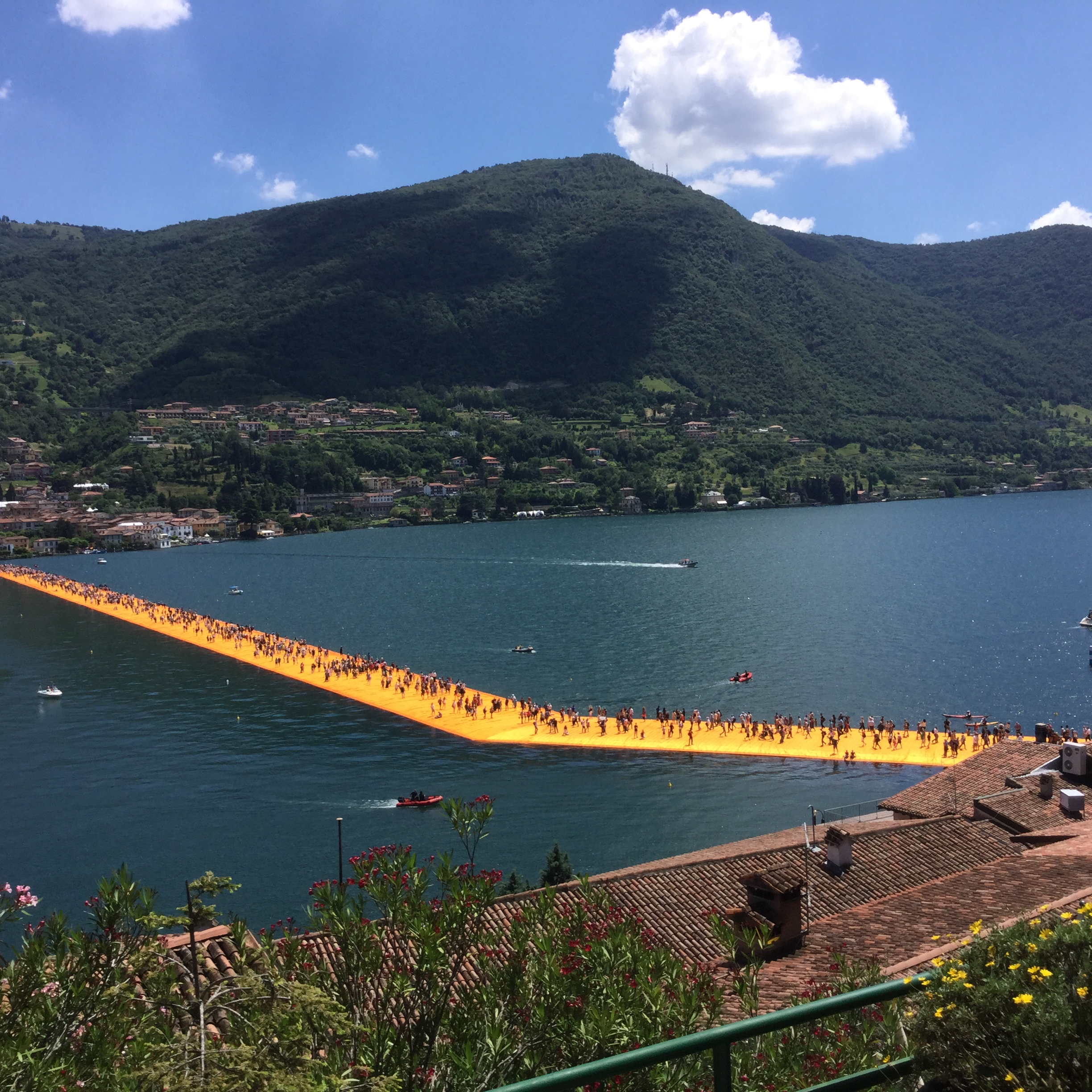 The floating piers in Lago d´Iseo, Italy.